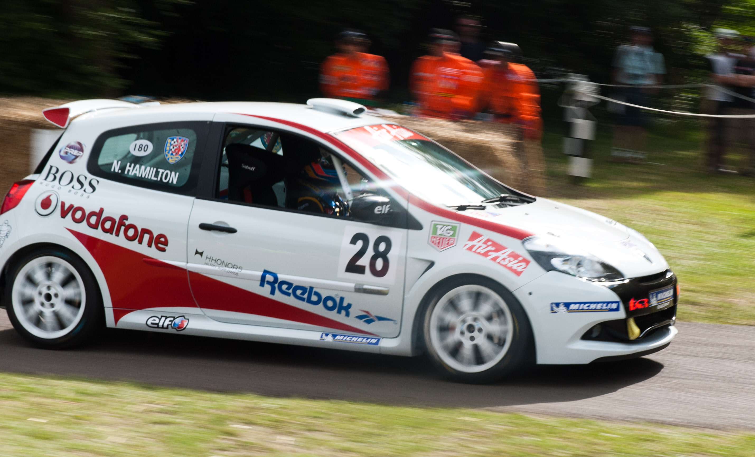 Nicolas Hamilton at 2011 Goodwood Festival of Speed